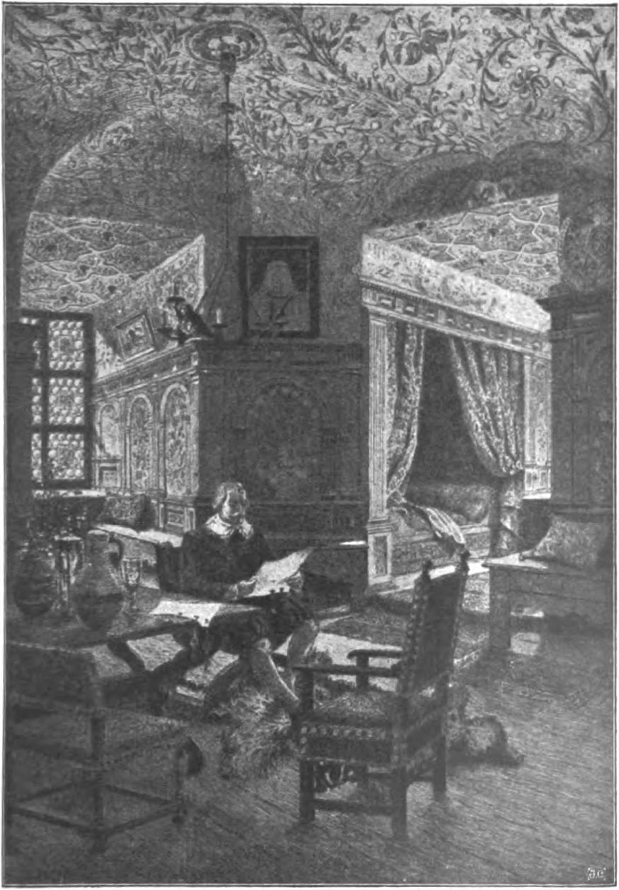 "Karl IX:s sängkammare å Gripsholm" Etching by Robert Haglund (1844–1930). Illustration from Nils Holgerssons underbara resa genom Sverige by Selma Lagerlöf.